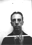 Lester S. Skaggs Los Alamos wartime security badge.